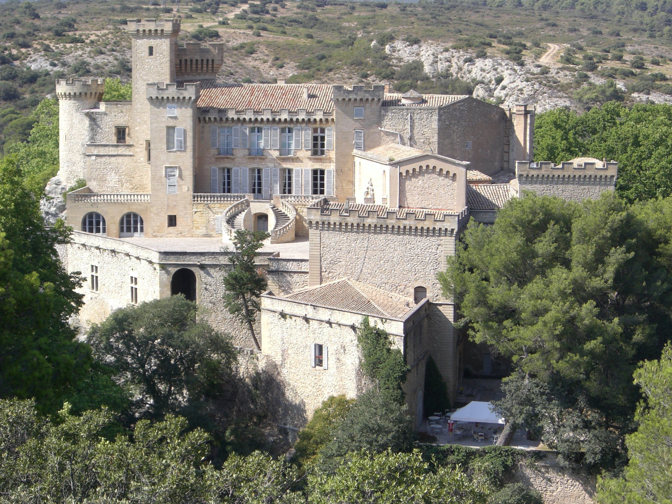 Castle of La Barben (Bouches-du-Rhône, Provence-Alpes-Côte d’Azur, France), seen from the zoo.